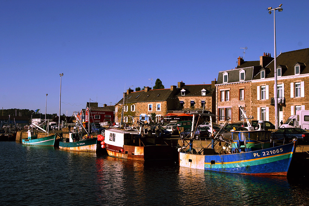 Harbour of Paimpol, France